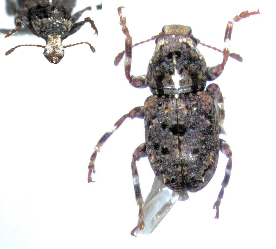 adult Lophus lewisi